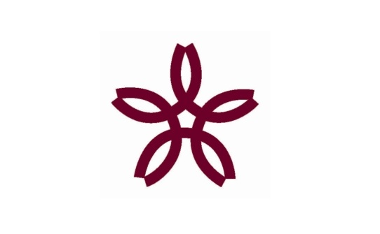 Flag of Sakurai Nara